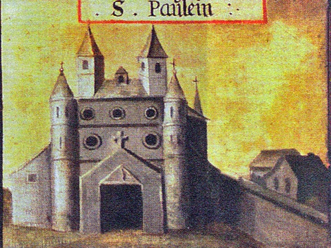 Saint Paulin Church in 1589